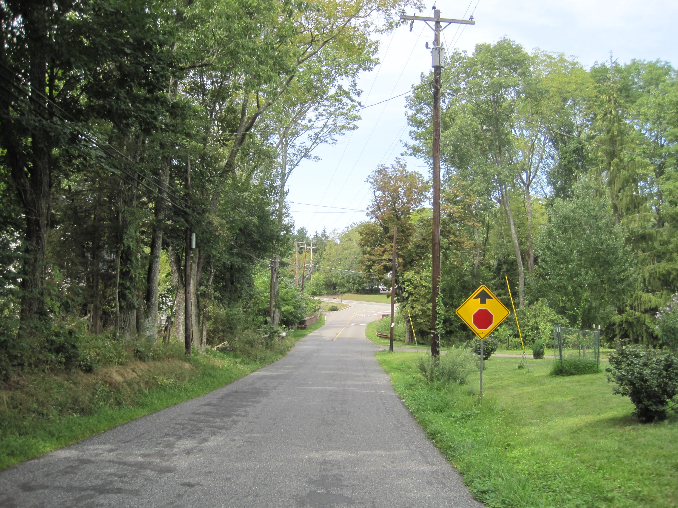 Photo of Barley Sheaf, New Jersey, an unincorporated community within Readington Township. Photo taken along westbound Barley Sheaf Road approaching Flemington Whitehouse Road (County Route 523).